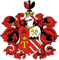 Coat of arms of Adamov (České Budějovice district), (The Czech Republic) Česky: Adamov (okres České Budějovice) - znak